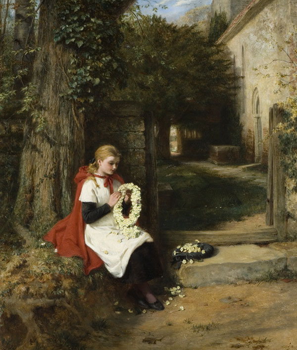 A young woman sitting in a churchyard making a white wreath of flowers, perhaps visiting a grave. She is wearing black with a white smock and red cape.